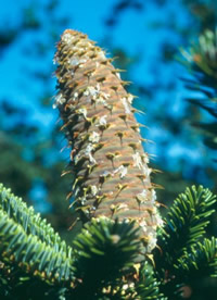 According to IUCN/SSC specialists this is one of the most endangered species of island floras in the Mediterranean area.